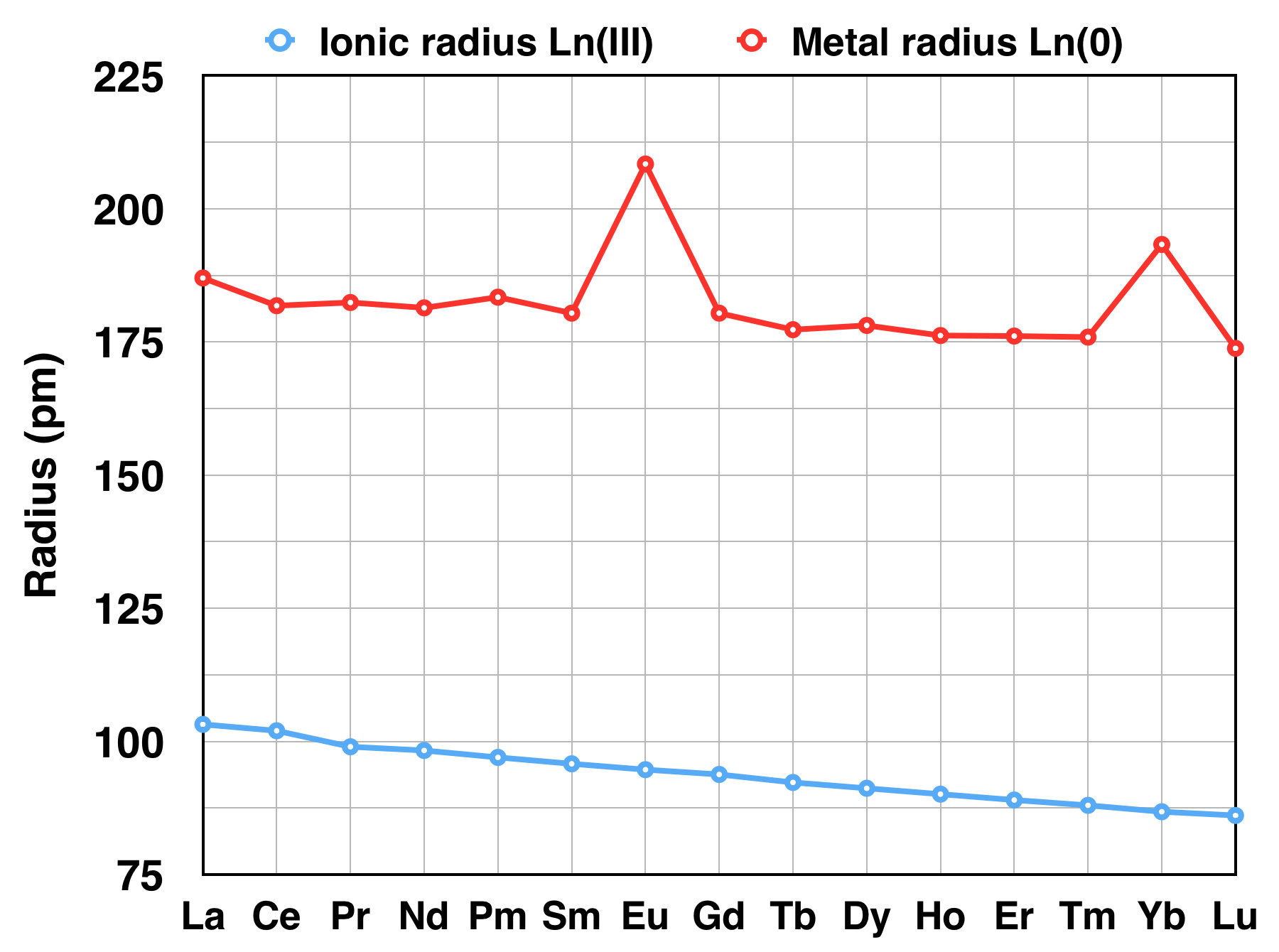 Radius variation in lanthanoids